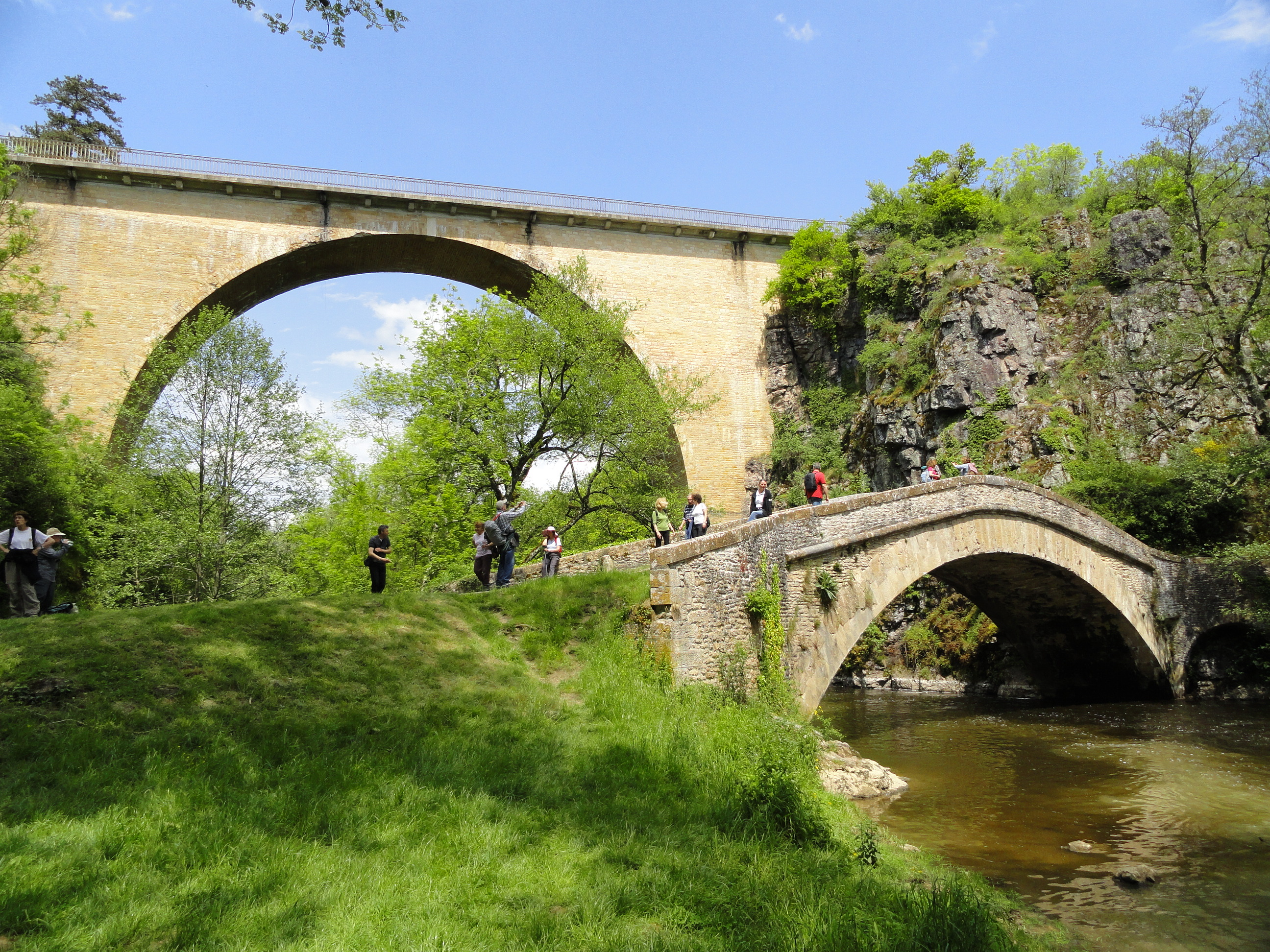 Pierre-Perthuis, Yonne, Burgundy, France. The two bridges on the river Cure. The Petit Pont (small bridge) named also Pont de Ternos or Pont Romain was built in 1770. The Grand Pont (large bridge) was completed in 1874. It is 35 m high with a 30-m wide arch. Looking downstream.